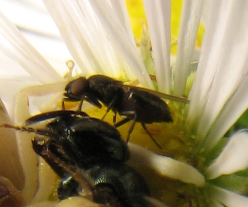 Freeloader fly, Neophyllomyza, on bee killed by ambush bug. Horsham Trail, Horsham, Montgomery County, Pennsylvania, USA.